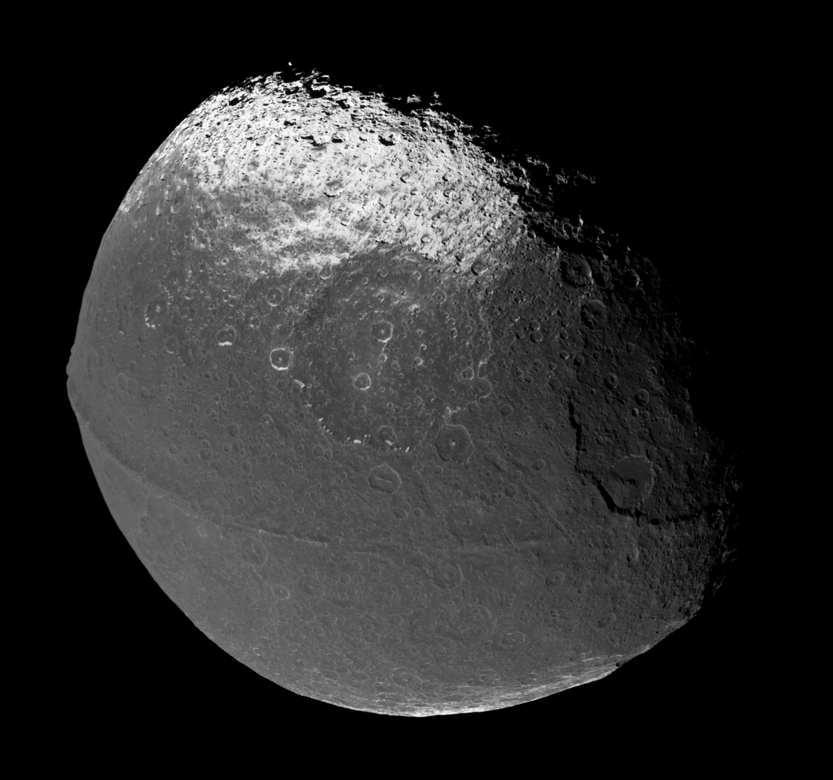 Mosaic of Iapetus images taken by the Cassini spacecraft, Dec. 31, 2004. Photomosaic assembled by Matt McIrvin.